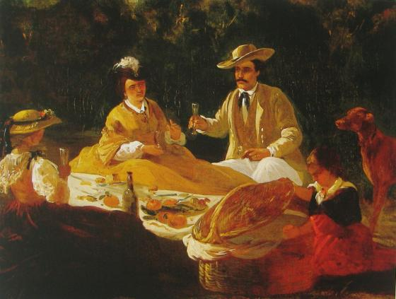 The family of the 2nd Count of Carvalhal on a picnic at the Quinta do Palheiro Ferreiro. 1865 painting by Tomás da Anunciação, at Museu Quinta das Cruzes, Madeira Island.